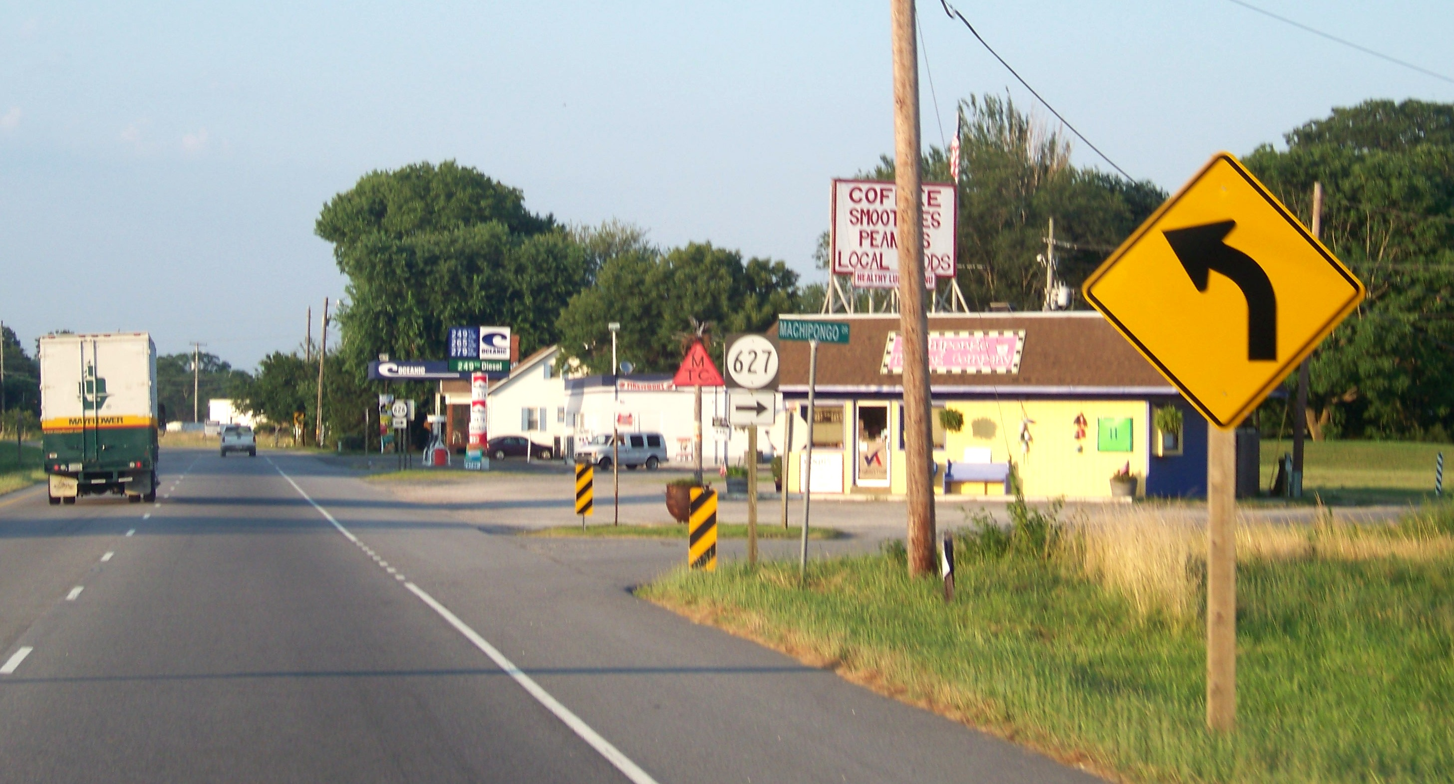 US-13 and Machipongo Drive